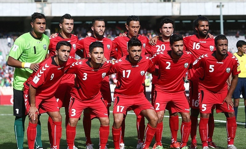 Afghanistan national football team before match with Japan, 2018 FIFA World Cup qualification, Azadi Stadium, Tehran